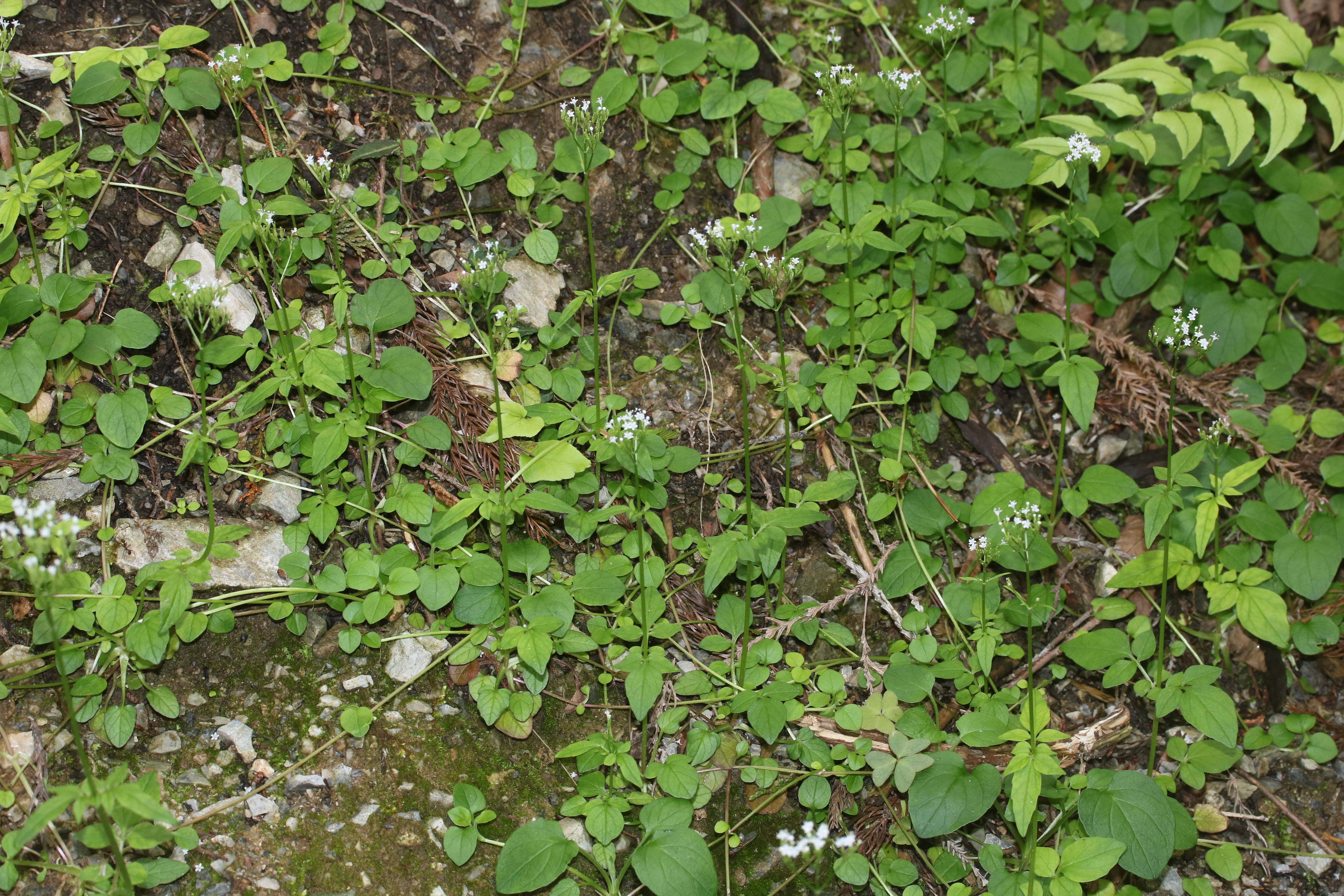 Valeriana flaccidissima in Mount Fujiwara, Inabe, Mie prefecture, Japan.